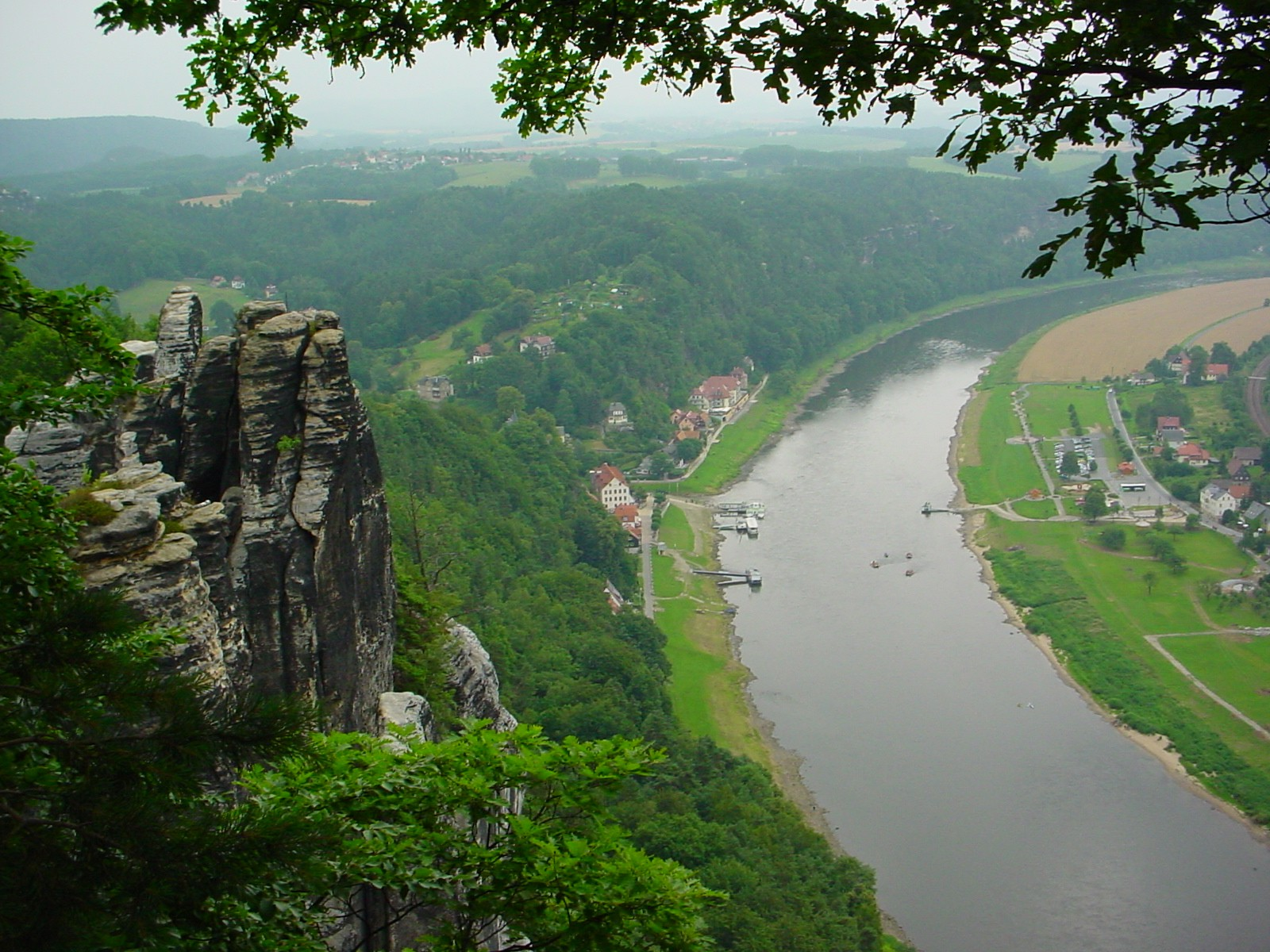 rocks of Bastei and view across the river Elbe to health resort Rathen (district Oberrathen)